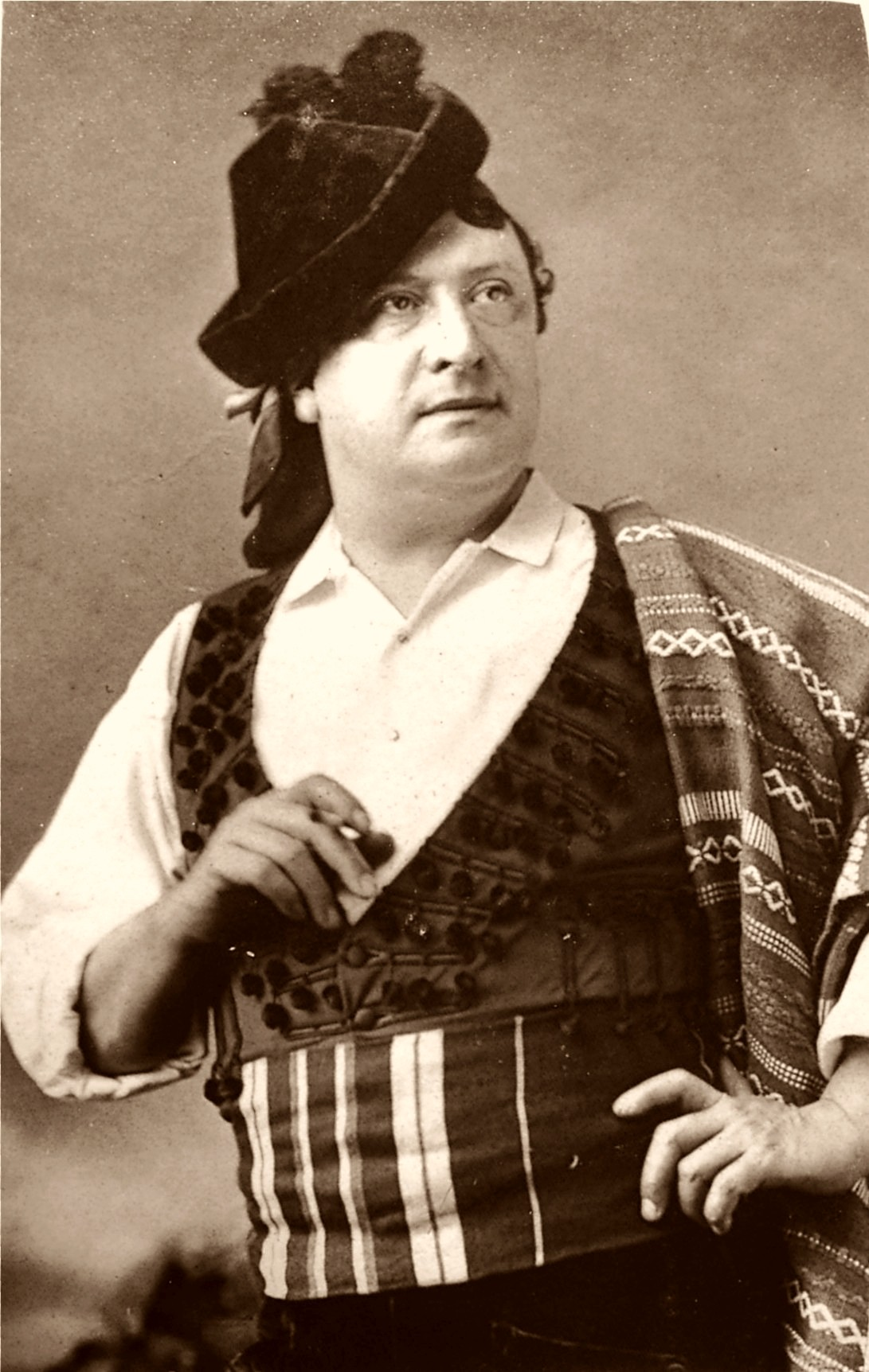 Charles Fechter 1824-1879, English-French Actor.